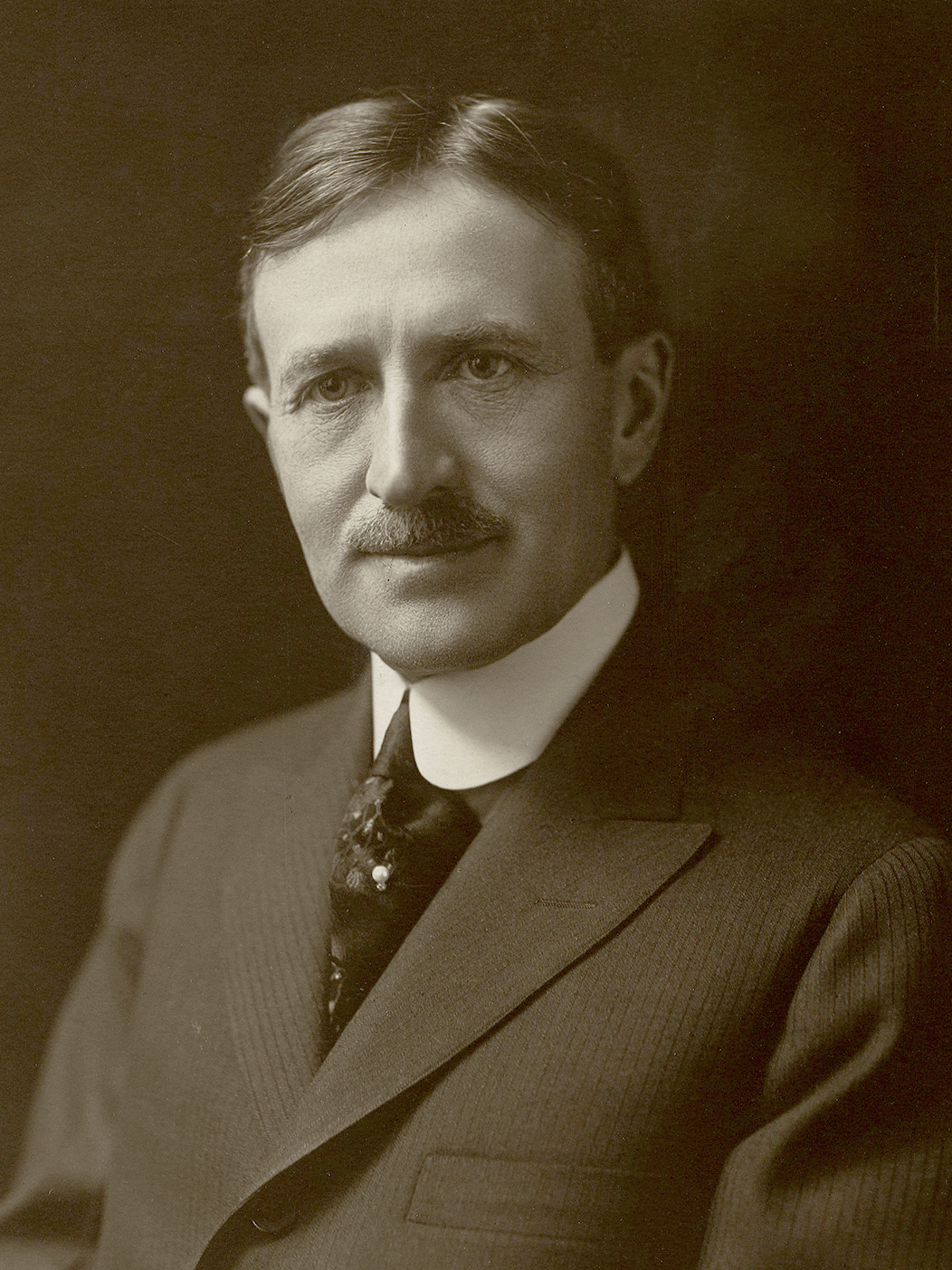 Vintage portrait photo of Harvey Samuel Firestone